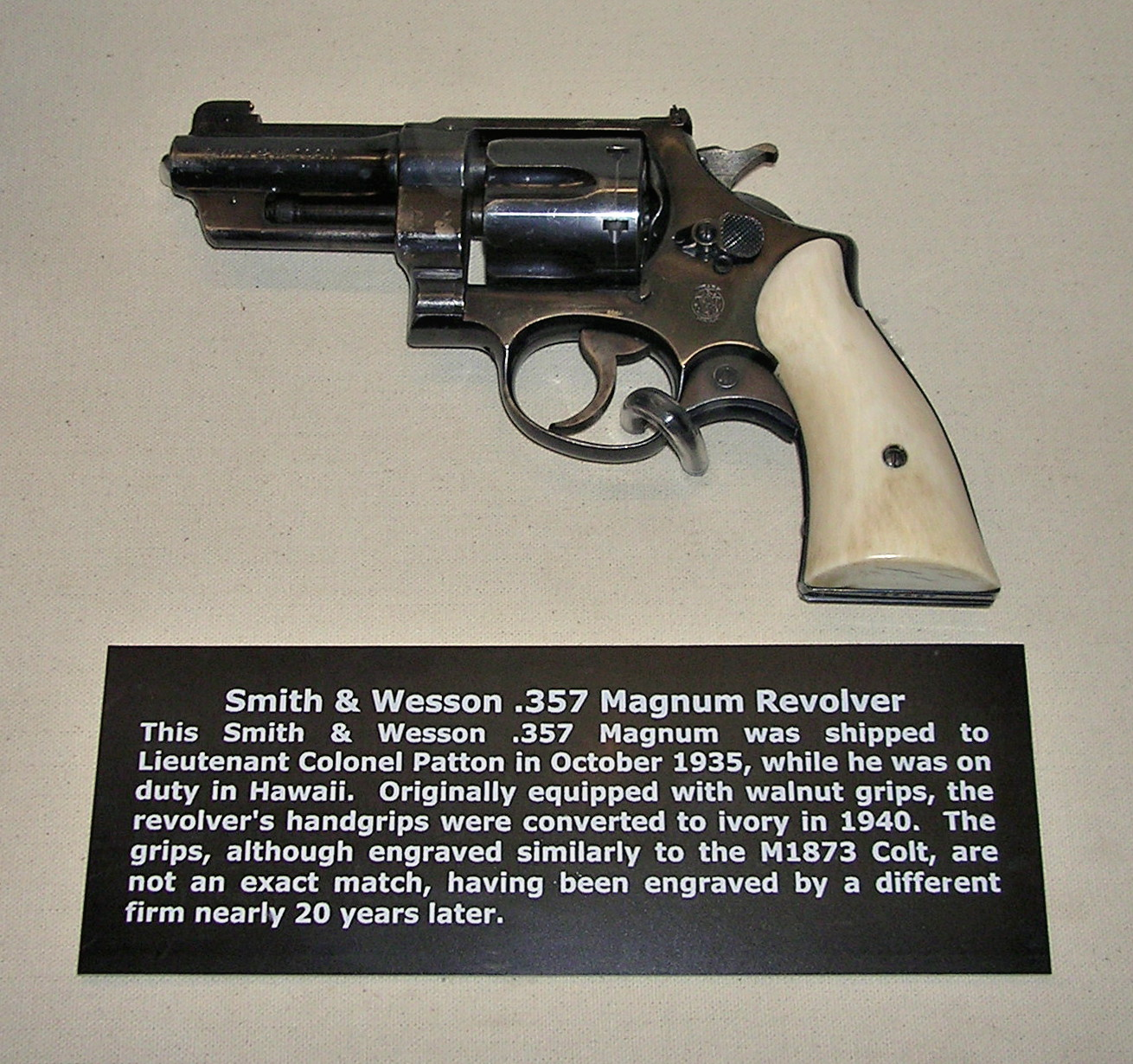 Patton's ivory-handled revolvers